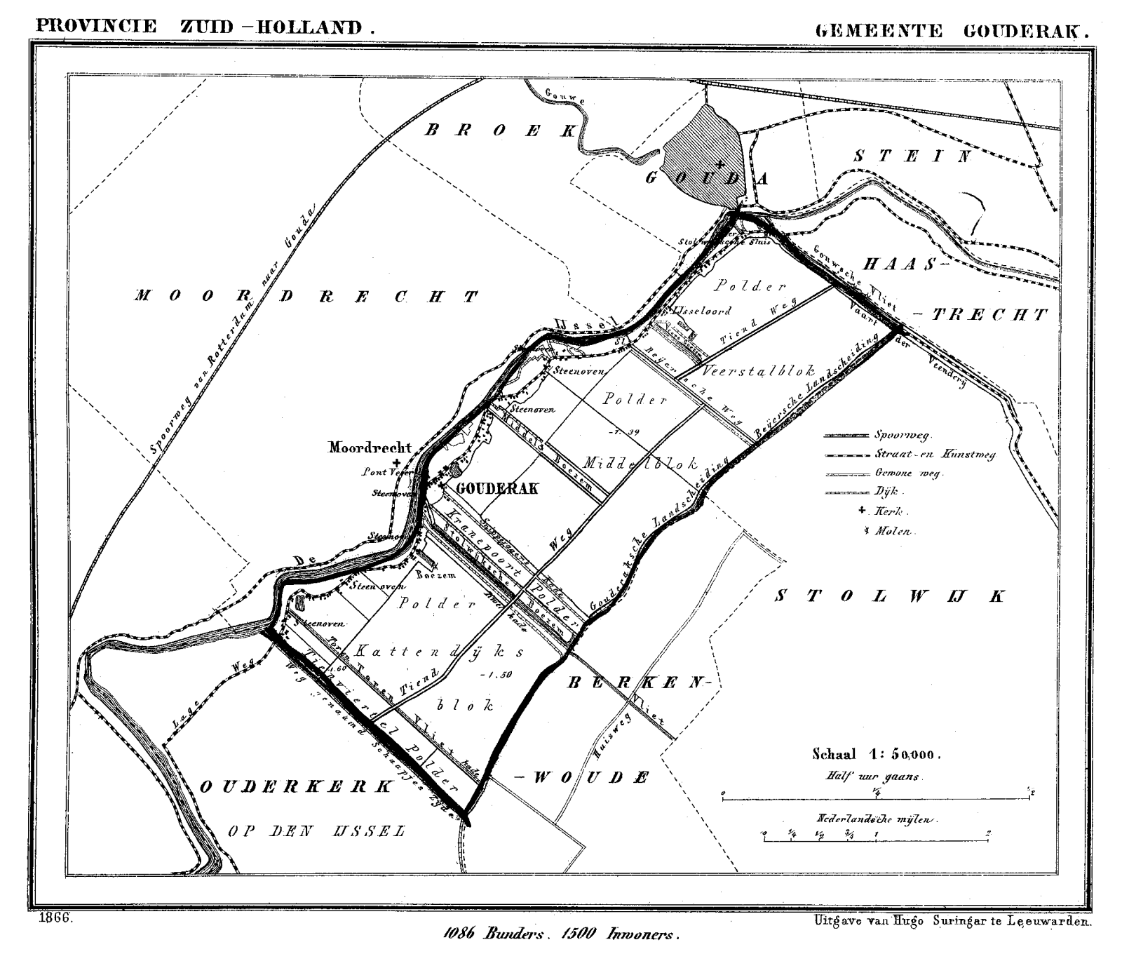 Historic map of Gouderak (now part of municipality Ouderkerk), South Holland, the Netherlands